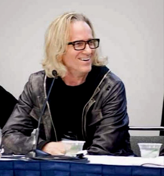 Kim Bullard sitting at table smiling with glasses on